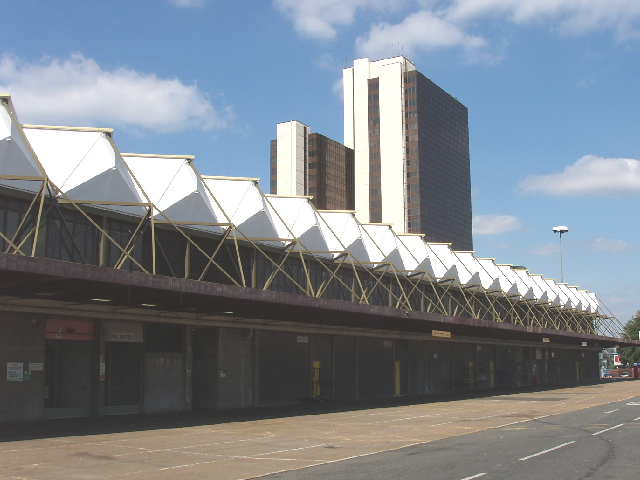 New Covent Garden Flower Market. Looking North from the car park